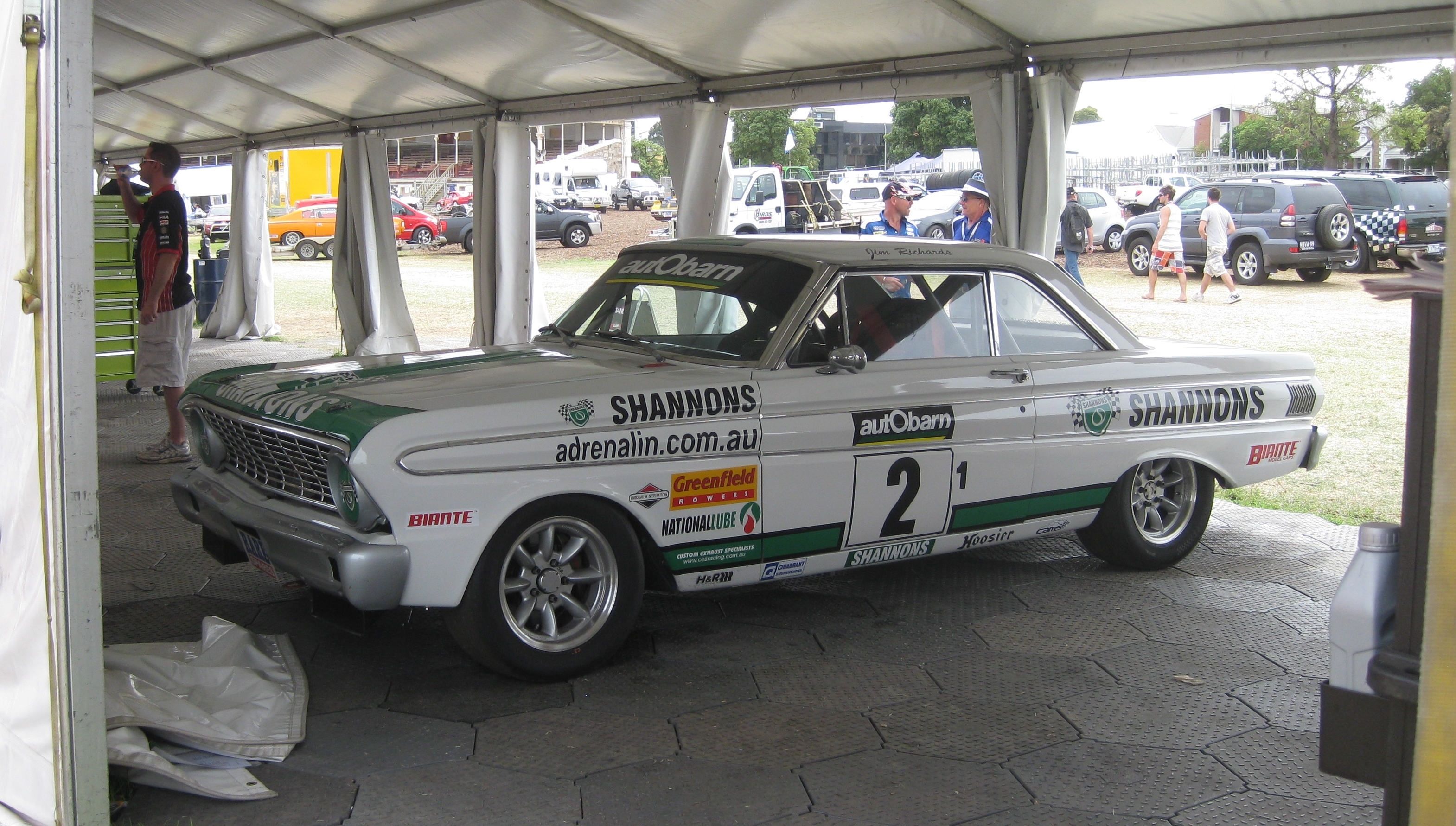 The 1964 Ford Falcon Sprint of Jim Richards at the Adelaide Parklands Circuit for the opening round of the 2010 Touring Car Masters